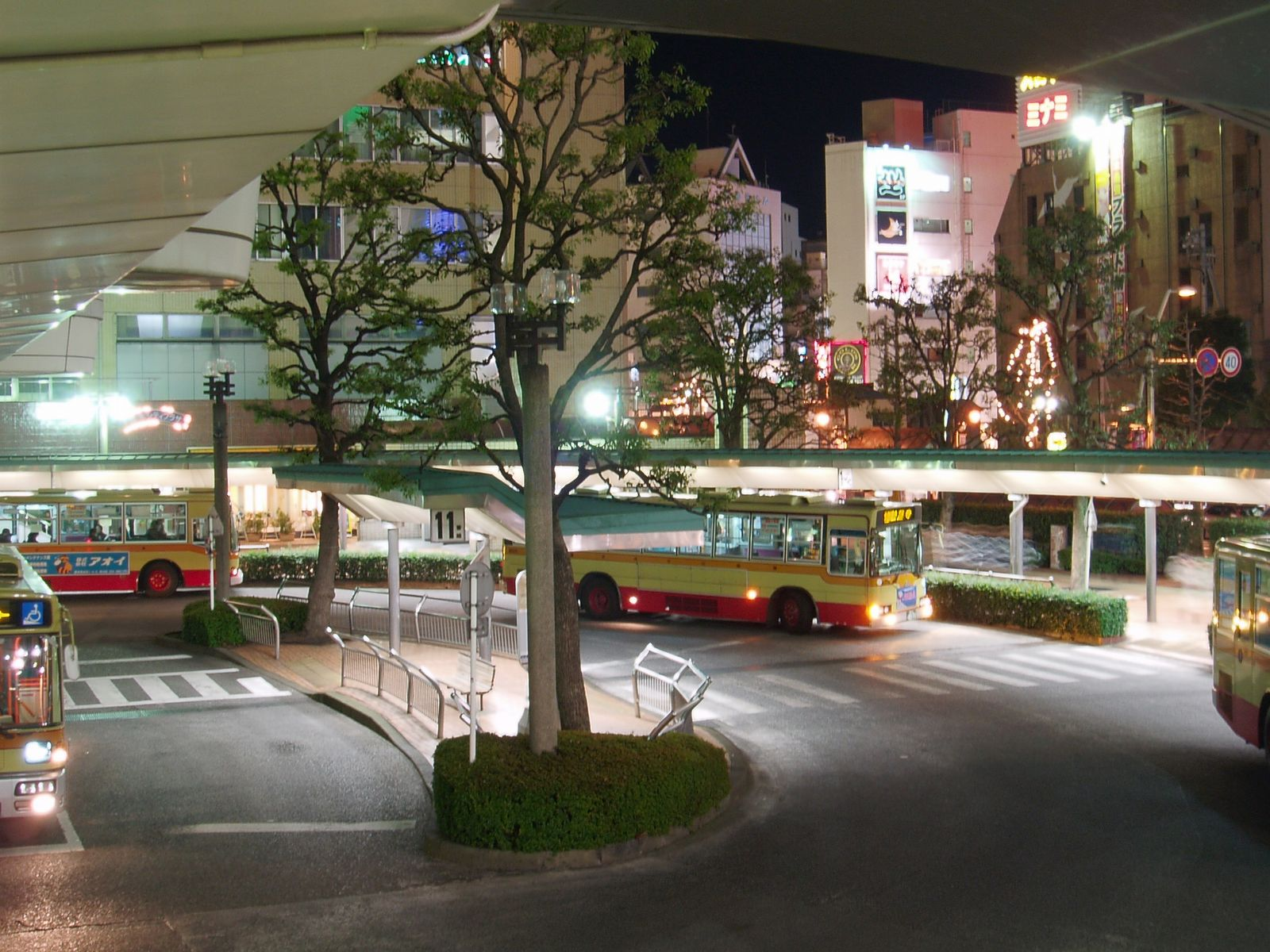 Kanachu Atsugi Bus Center